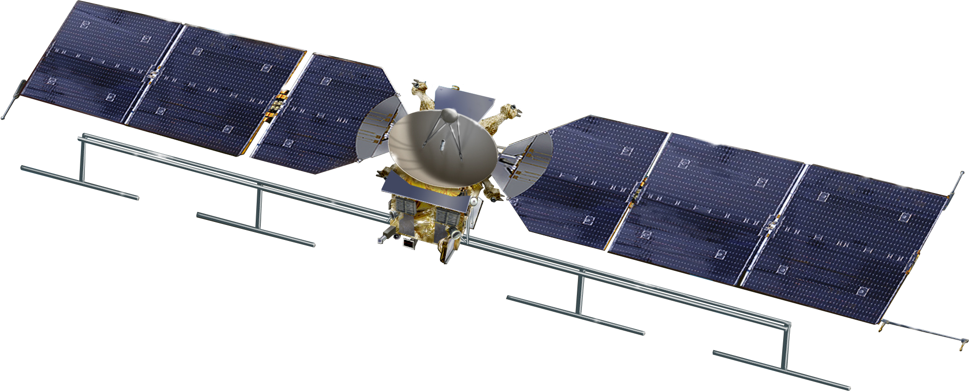 Transparent Image of the Europa Mission spacecraft, extracted from concept artwork.